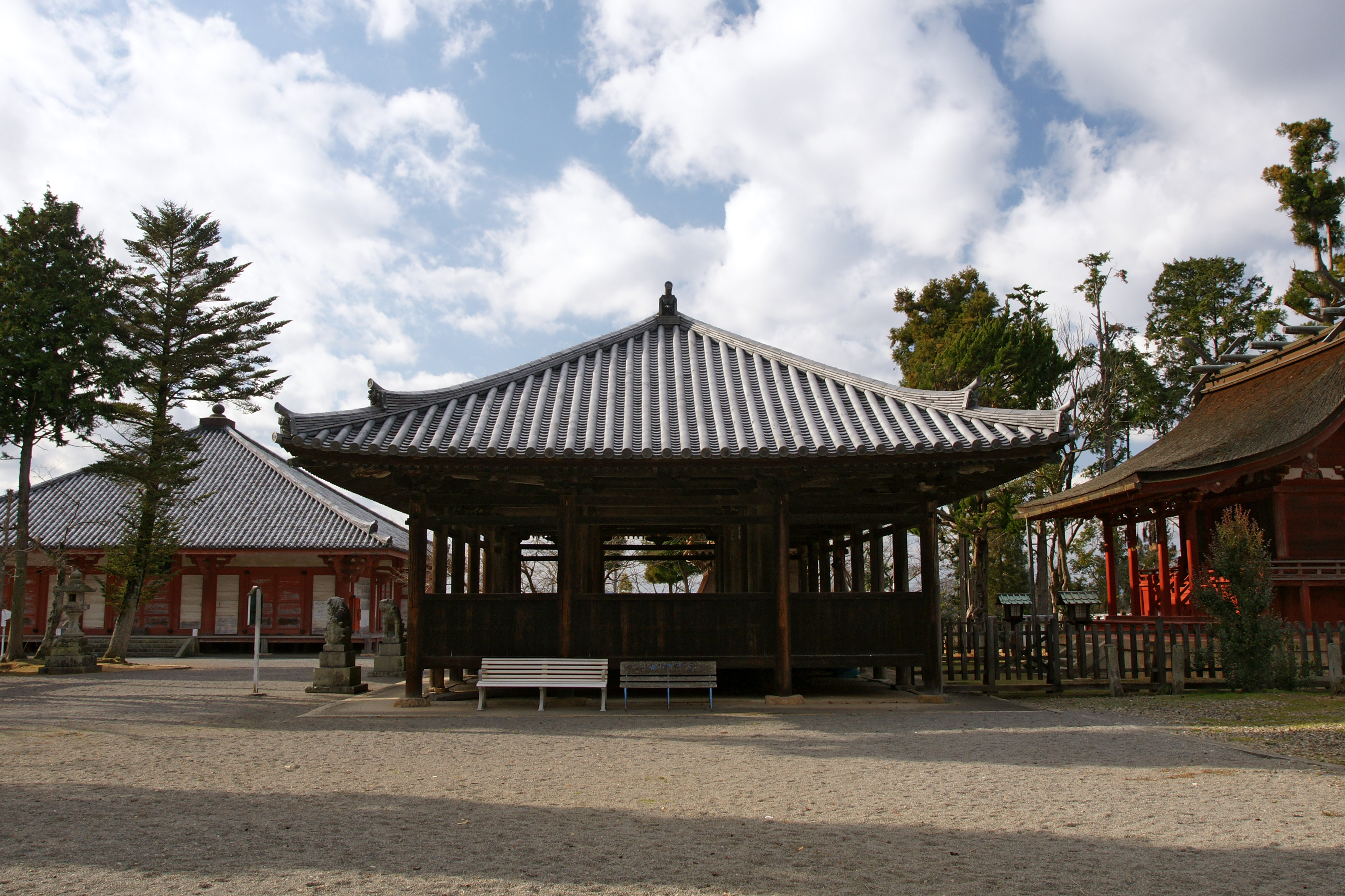 Hachiman-jinja-haiden of Jōdo-ji Buddhist temple (Japan's Important Cultural Property) in Ono, Hyogo prefecture, Japan.